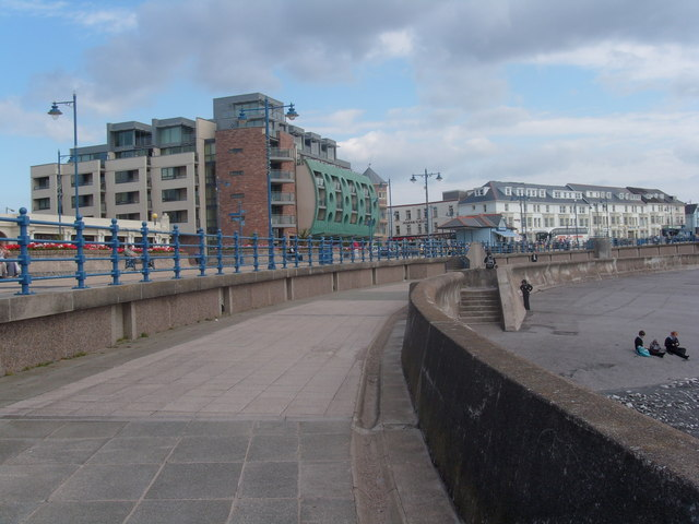 Porthcawl promenade (2) Photograph taken looking in opposite direction to photograph 1490479